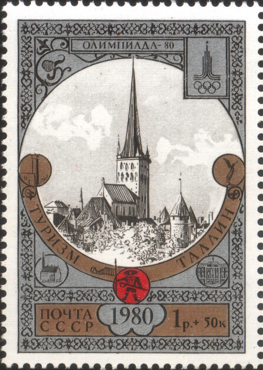 USSR stamp